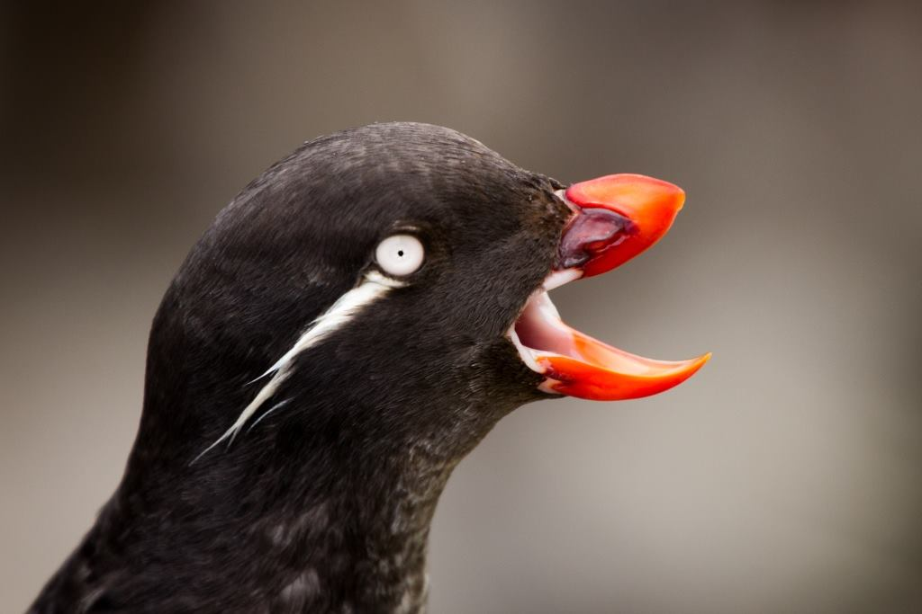 Parakeet auklet on the Pribilof Islands by Michael Johns/USFWS.